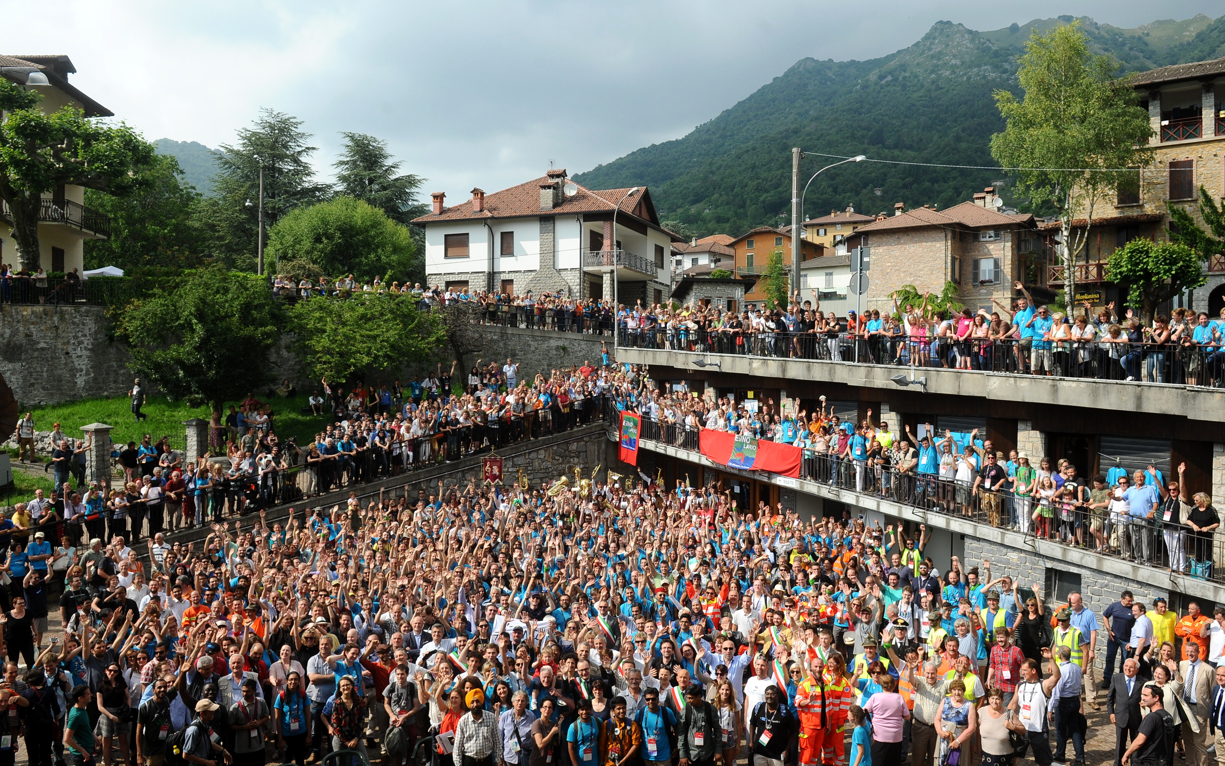 Wikimania 2016 - group photo